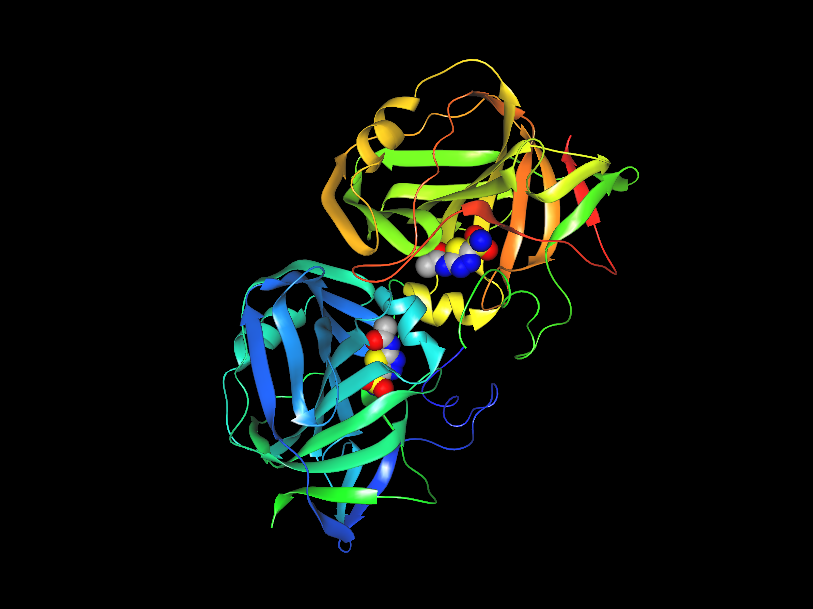 Crystal Structure Of The Extracellular Domain Of Human Carbonic Anhydrase XII Complexed With Acetazolamide